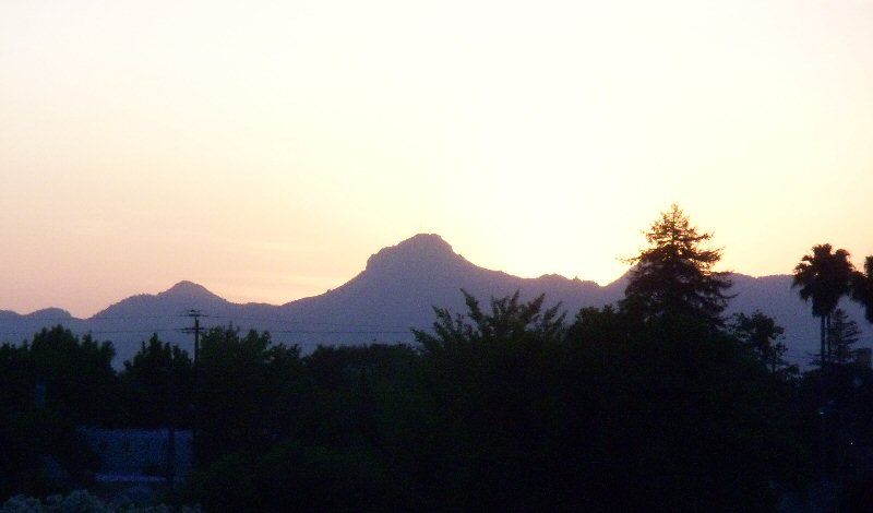 Sutter Mountains seen from Yuba City, California. There are an abundance of shade trees in Yuba City.